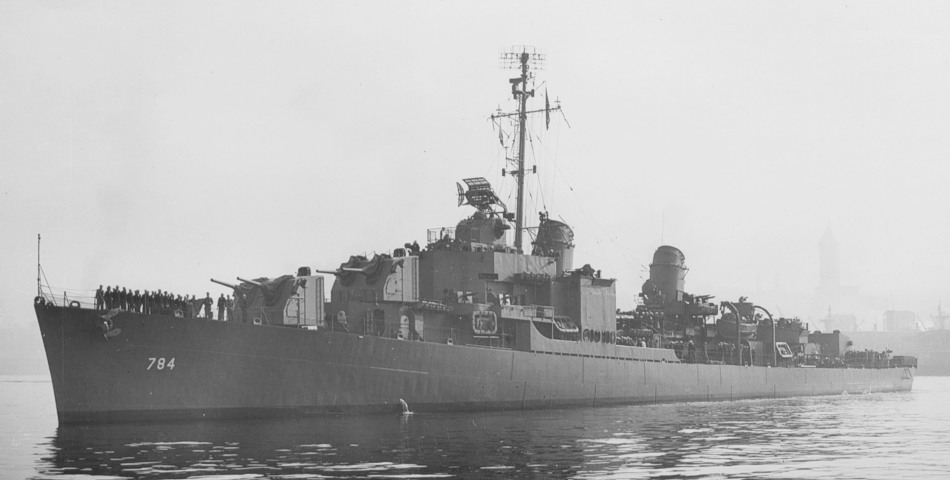 The U.S. Navy destroyer USS McKean (DD-784) off Seattle, Washington (USA), on 14 June 1945.